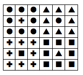 This file is a diagram of a sample solution to the Patterns II pencil and paper game.